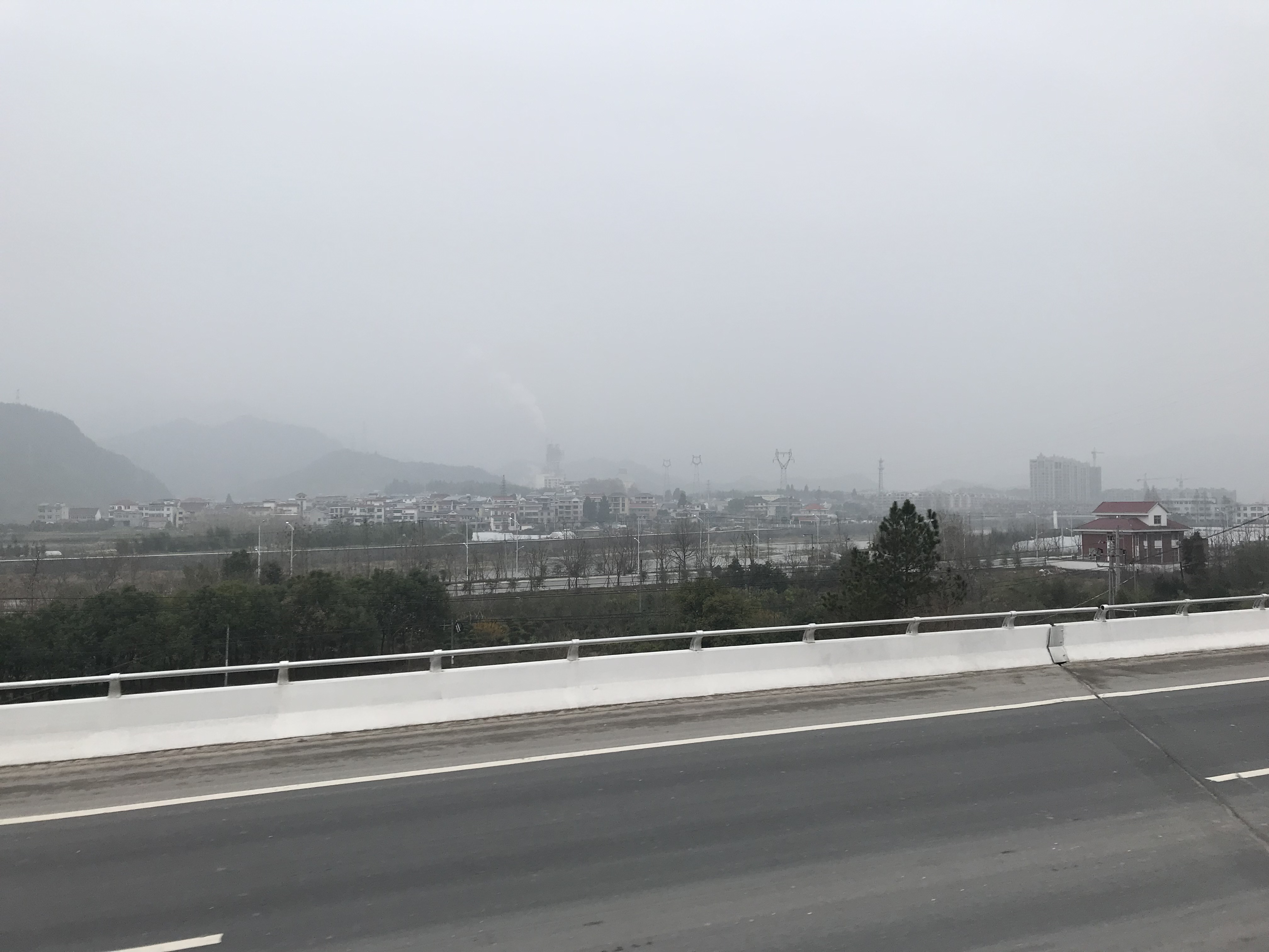 201901 Genglou Overview